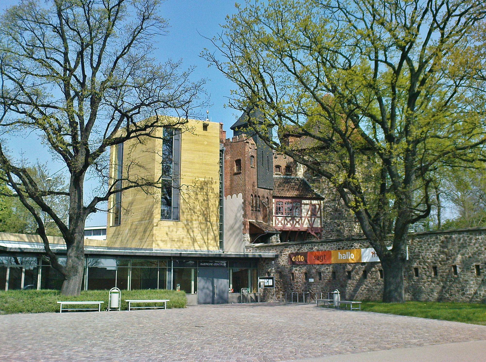 Lukasklause Magdeburg Otto von Guericke museum